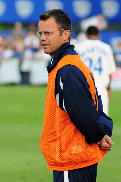 Photo of soccer player and coach, Don Gramenz. Wilson Wong photo.